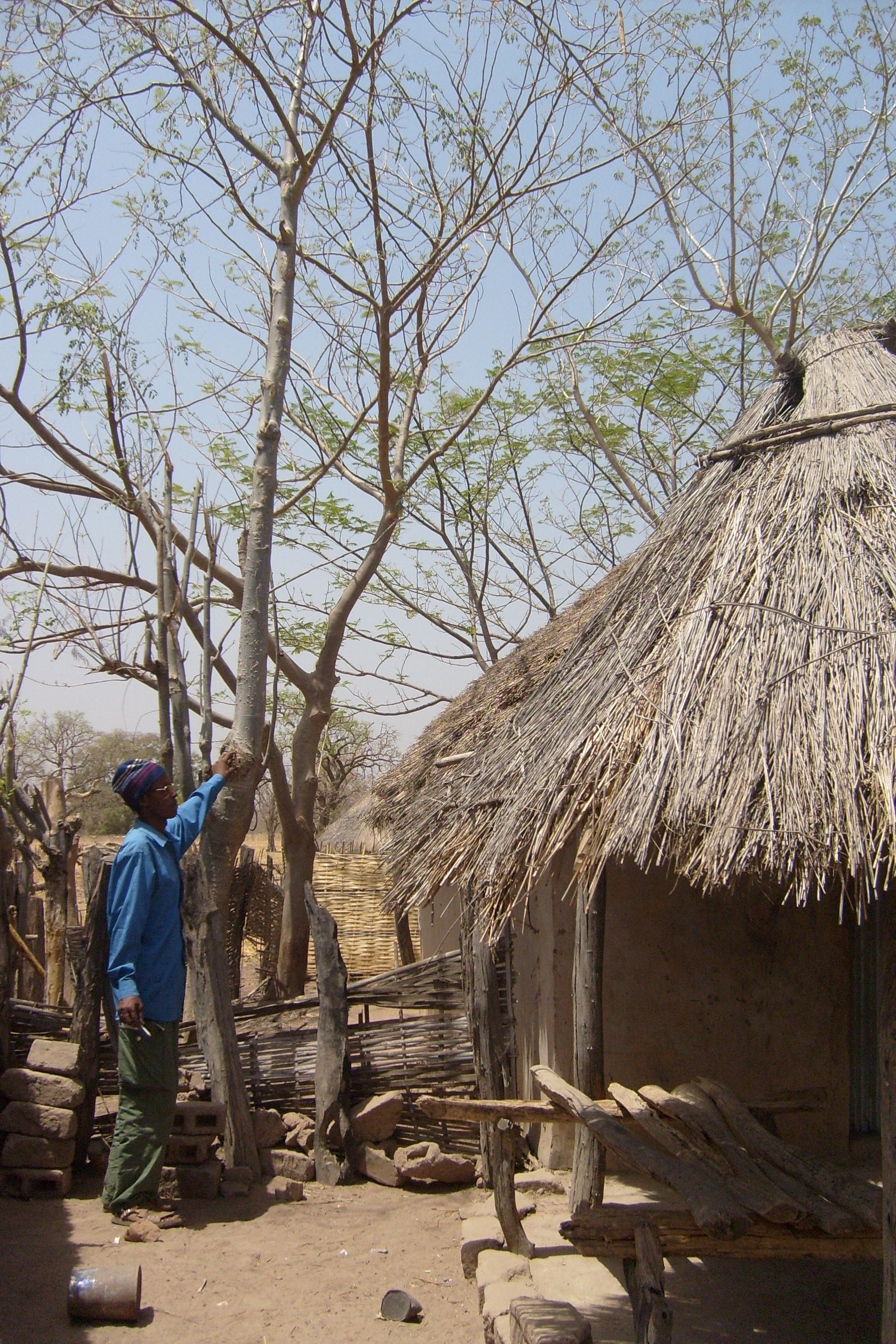 Thatched house in Tambacounda (Senegal)